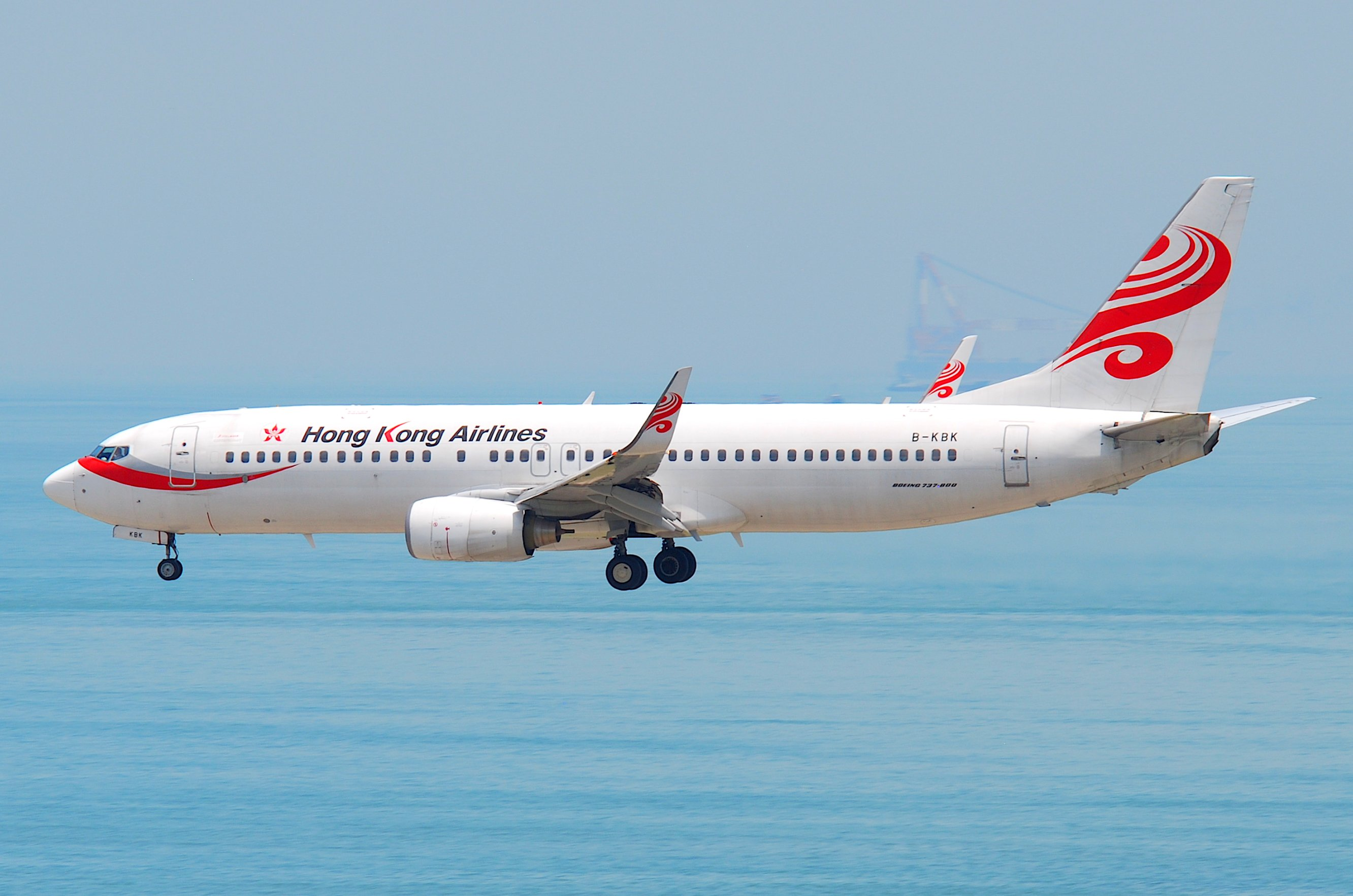 This Boeing 737-84P took its first flight on January 7, 2007...(c/n 35072/ 2155)